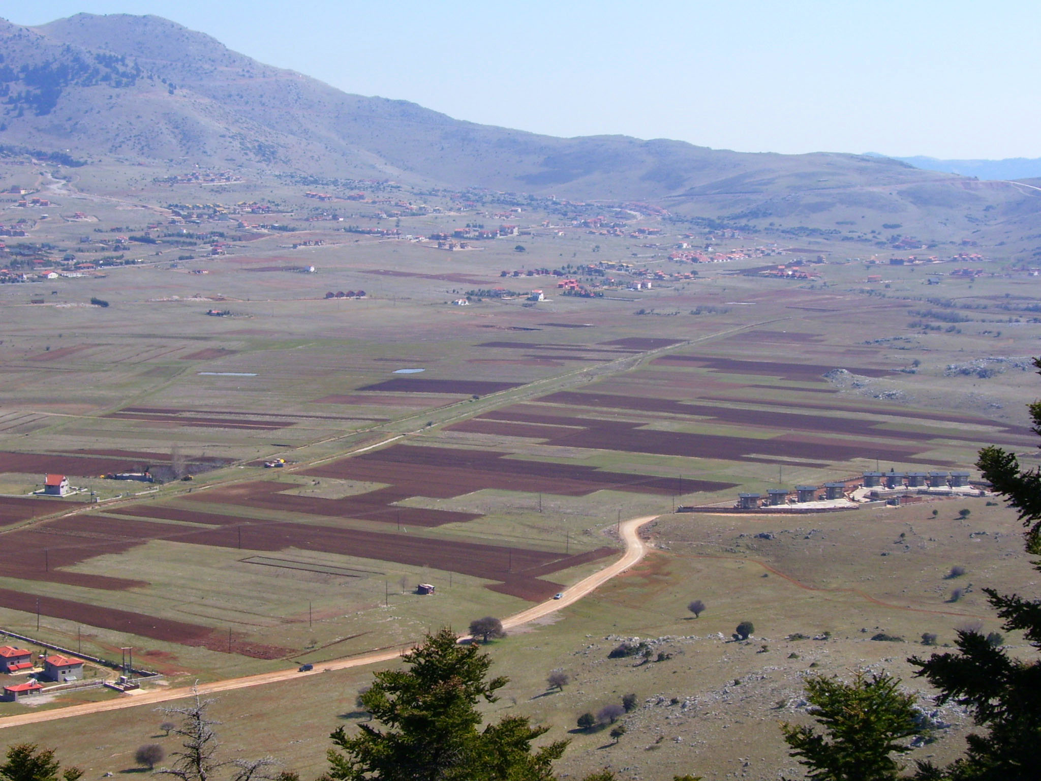 Livadi village